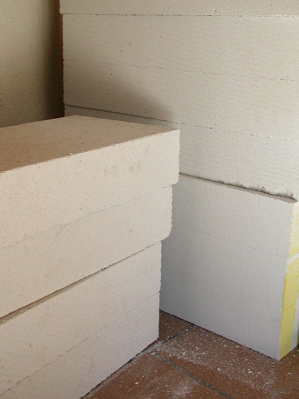 Ytong blocks.